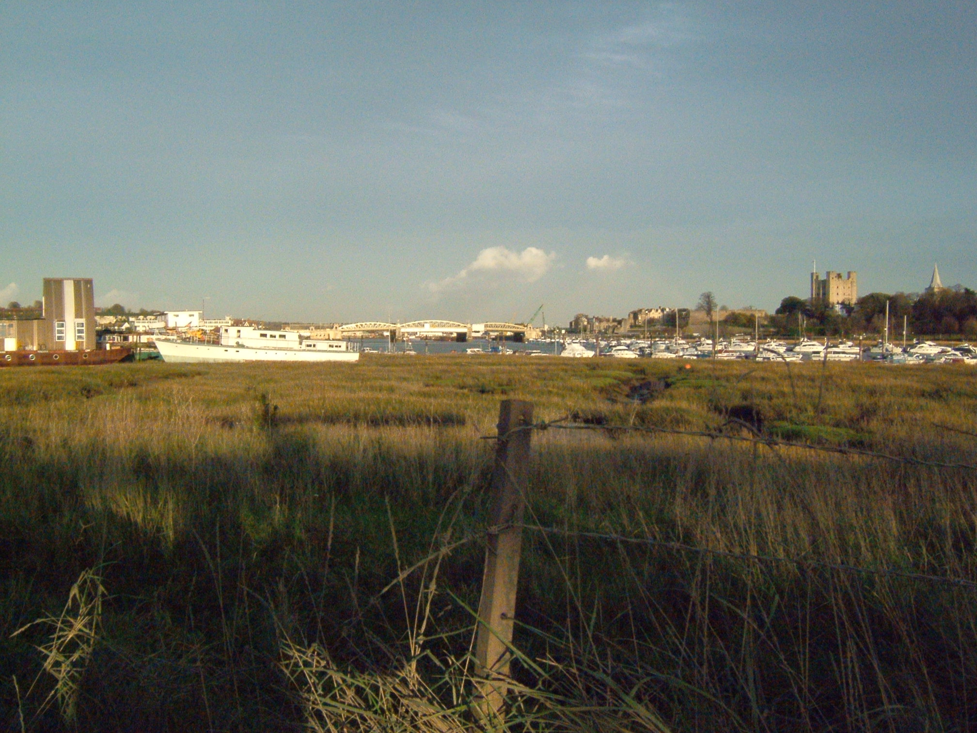 Looking over Temple Marsh, Strood downstream towards Rochester Bridge and Castle. We see marsh river, pleasure craft, Rochester Bridge, Castle, and Cathedral. On the Strood bank we see boat moored in Temple Creek.In the foreground is a concrete post with barbed wire.Autumn.